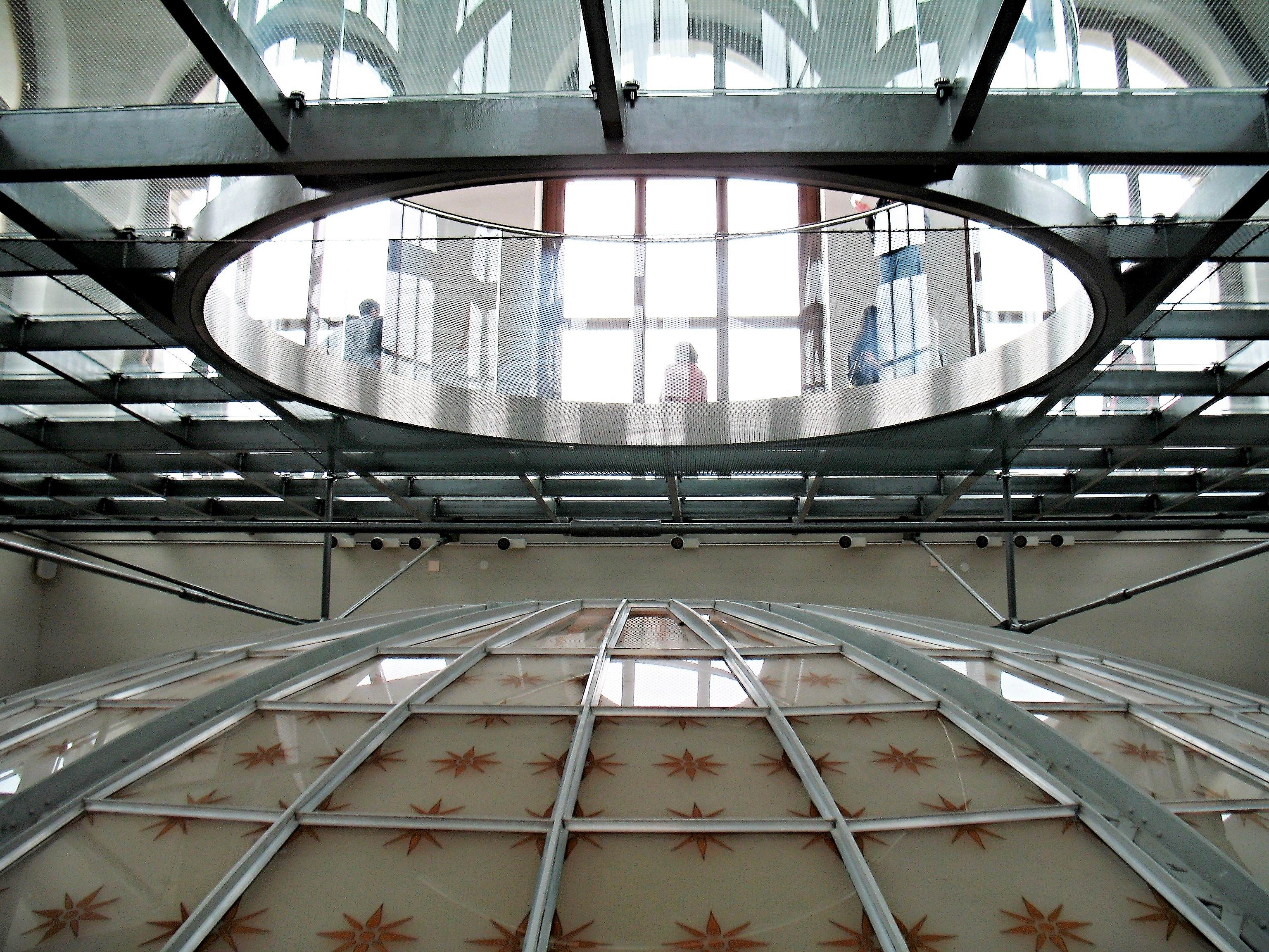 The dome in main building of the National museum in Prague